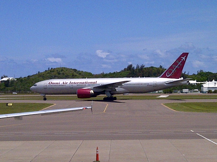 This image is of an Omni Air International Boeing 777ER arriving in Bermuda on June 13, 2012.